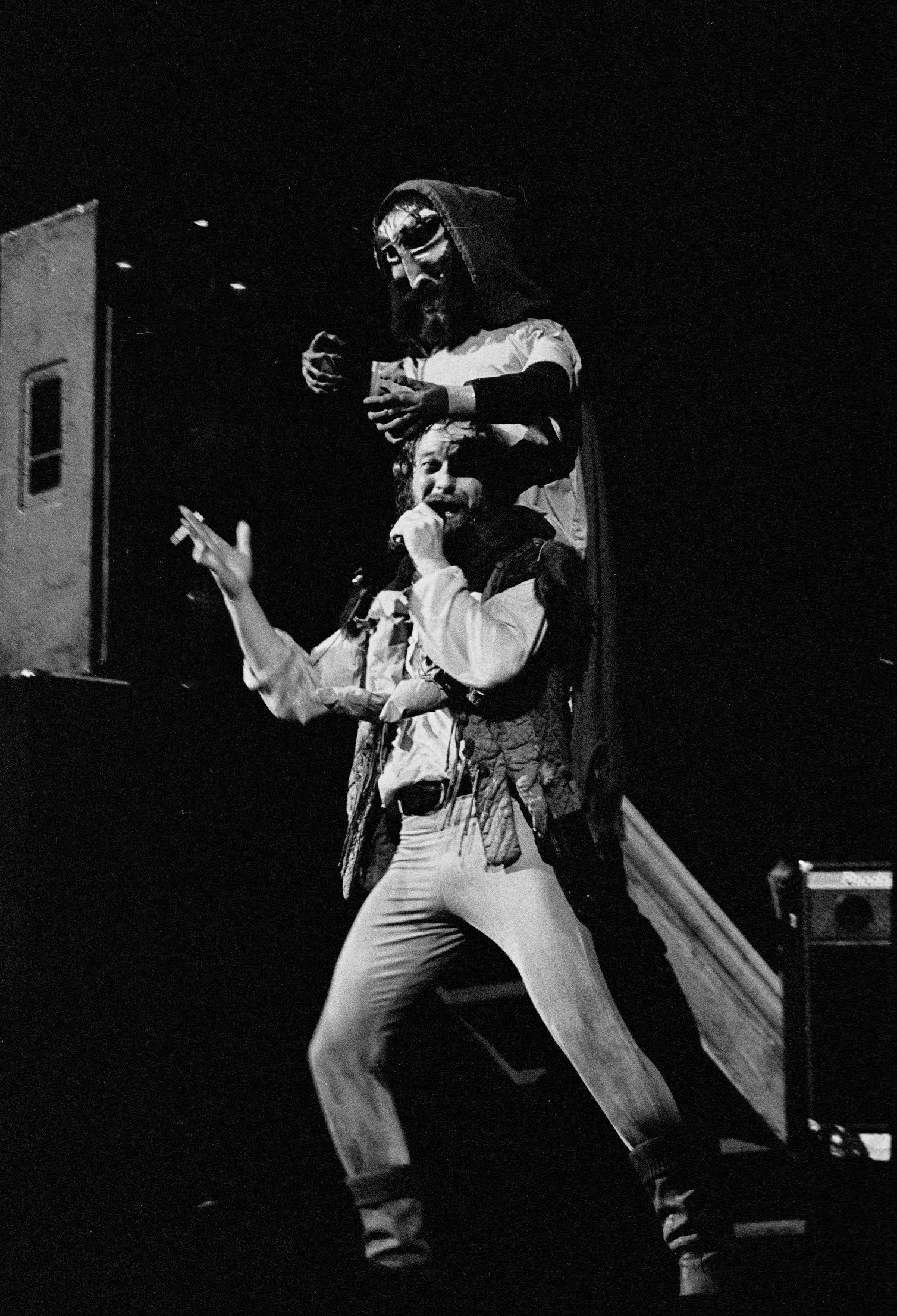 Jethro Tull's Ian Anderson with a beast upon his shoulders in Dallas, Texas, 1982.